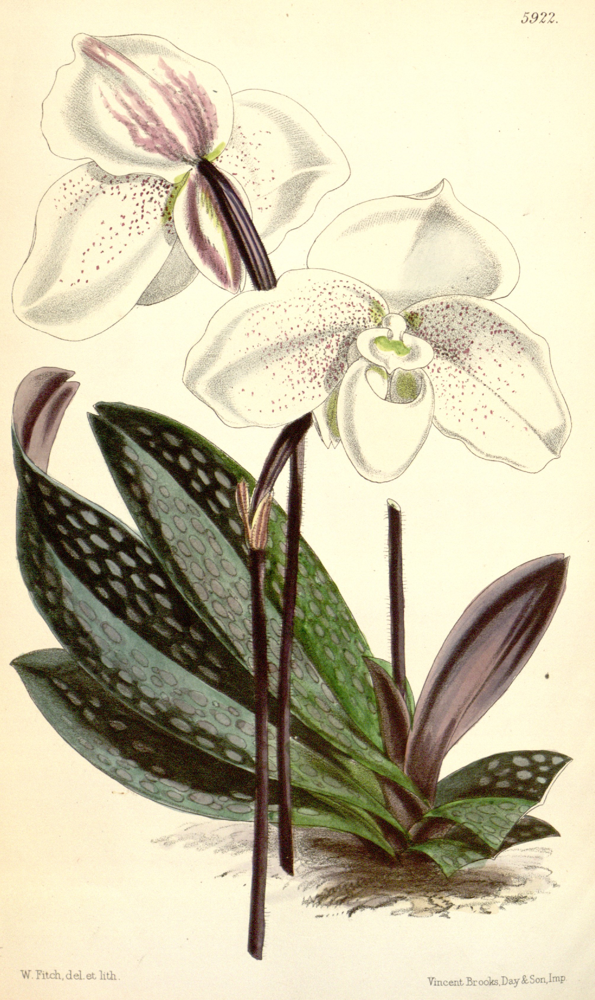 Illustration of Paphiopedilum niveum (as syn. Cypripedium niveum)